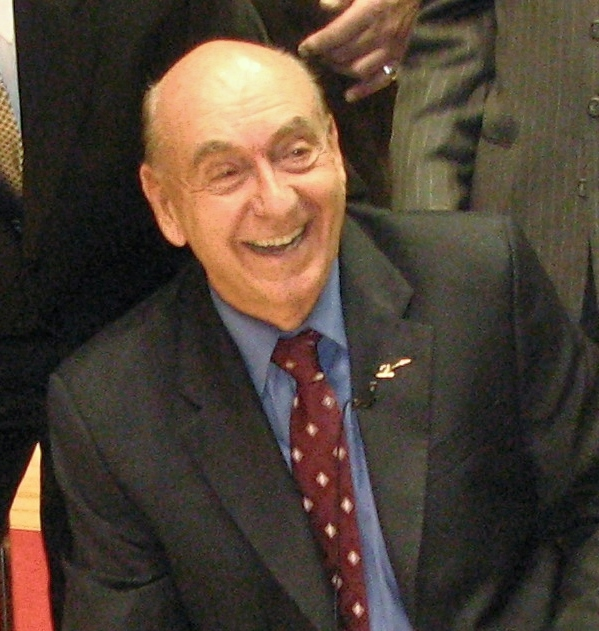 Dick Vitale at University of Detroit Mercy's Calihan Hall in 2011 for the dedication of Dick Vitale Court.